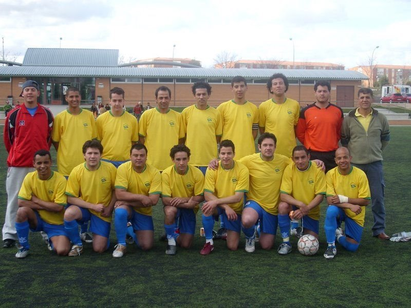 A sports team.